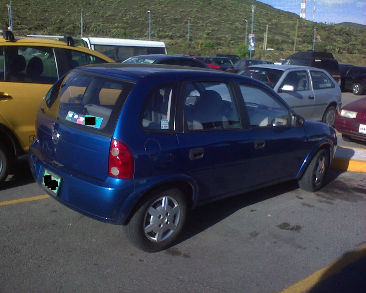 Chevrolet Chevy C2